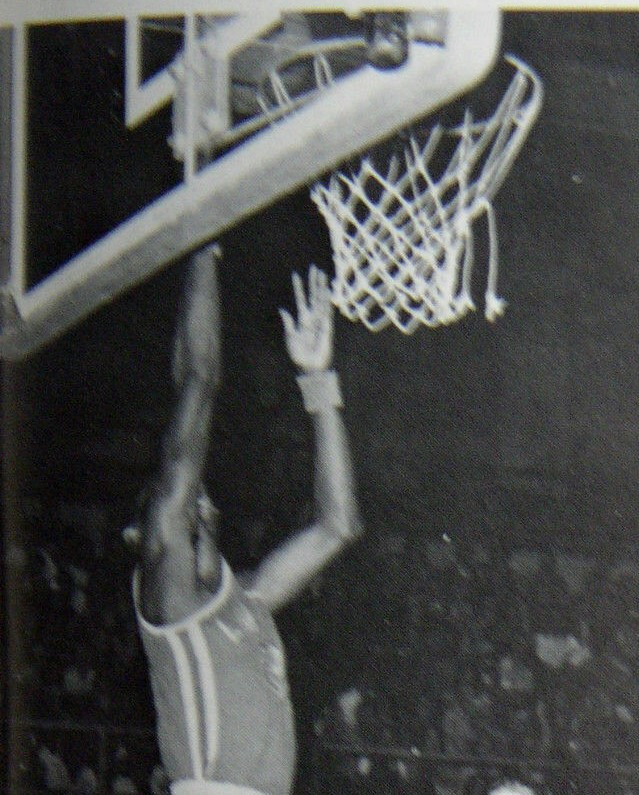 Long Beach Poly High School junior Tony Gwynn pictured performing a layup as a member of the 1975-76 Long Beach Poly Jackrabbits boys' varsity basketball team. Gwynn would go on to play basketball and baseball at San Diego State, earning All-American honors in the latter, and become inducted into the MLB Hall of Fame after an illustrious 20-season career in the major leagues.